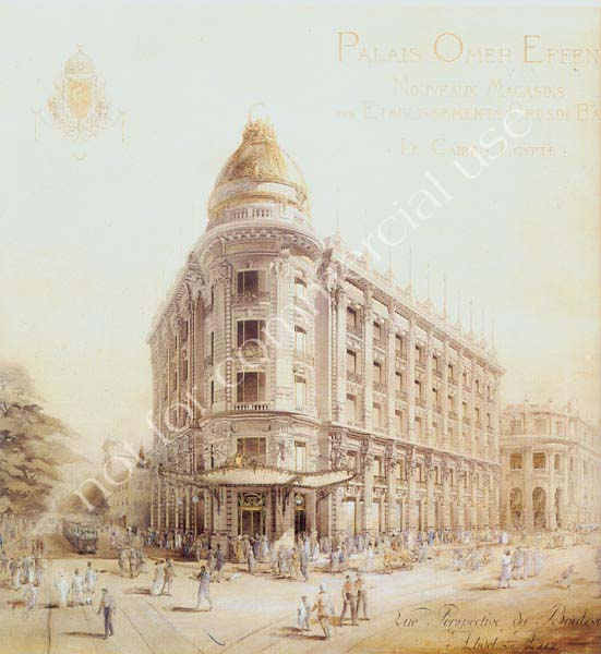 Cairo's Omer Effendi stores card. published in 19th century . (1830-76).